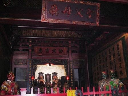 Zhu Shugui (Prince of NingJing) bedroom, now become Tainan Grand Matsu Temple.